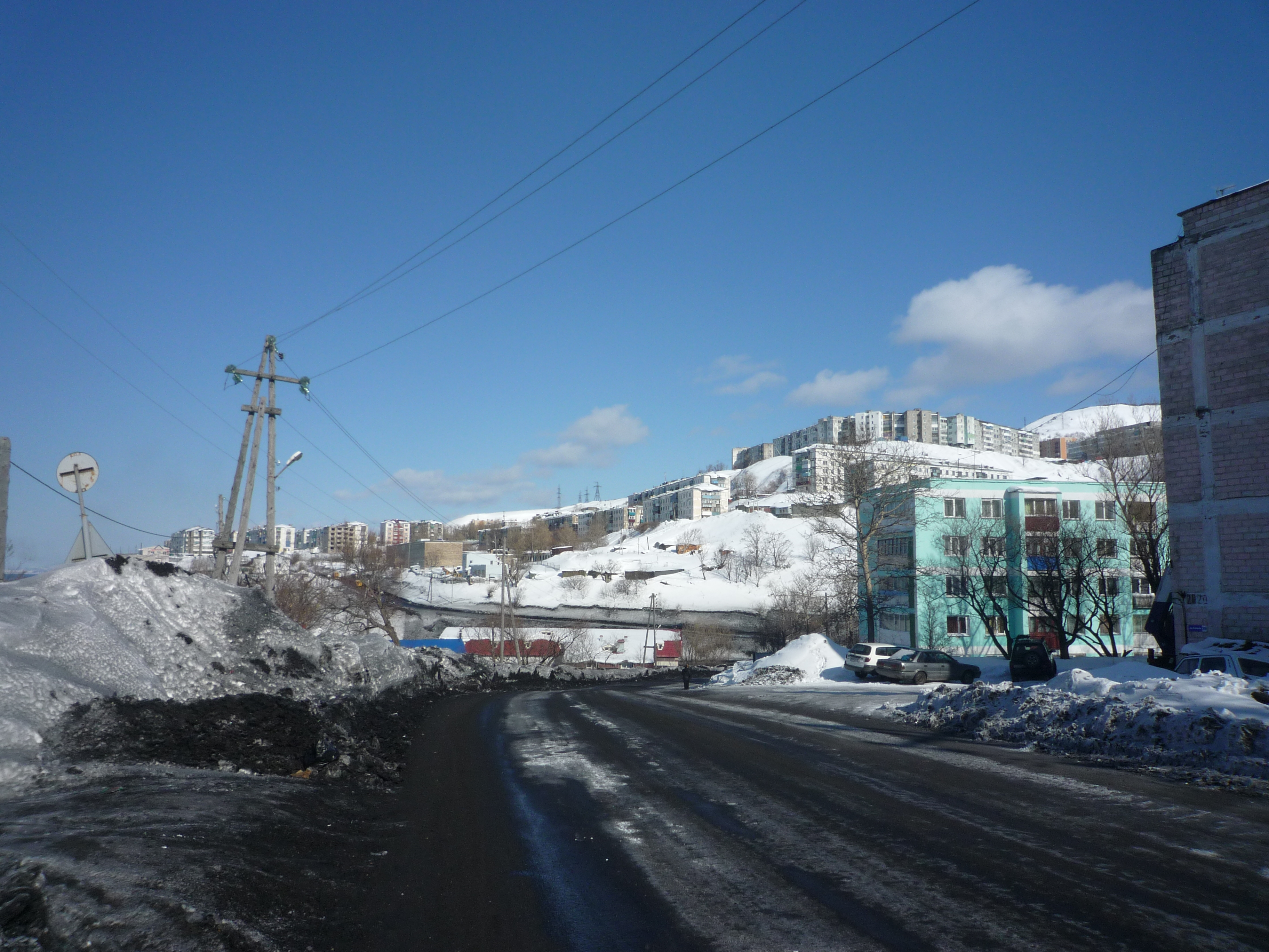 Третий микрорайон